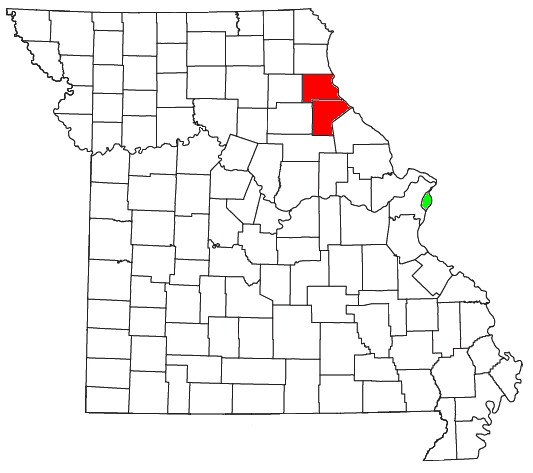 Locator map of the Hannibal Micropolitan Statistical Area in the northeastern part of the U.S. state of Missouri, with the city of St. Louis highlighted in green.